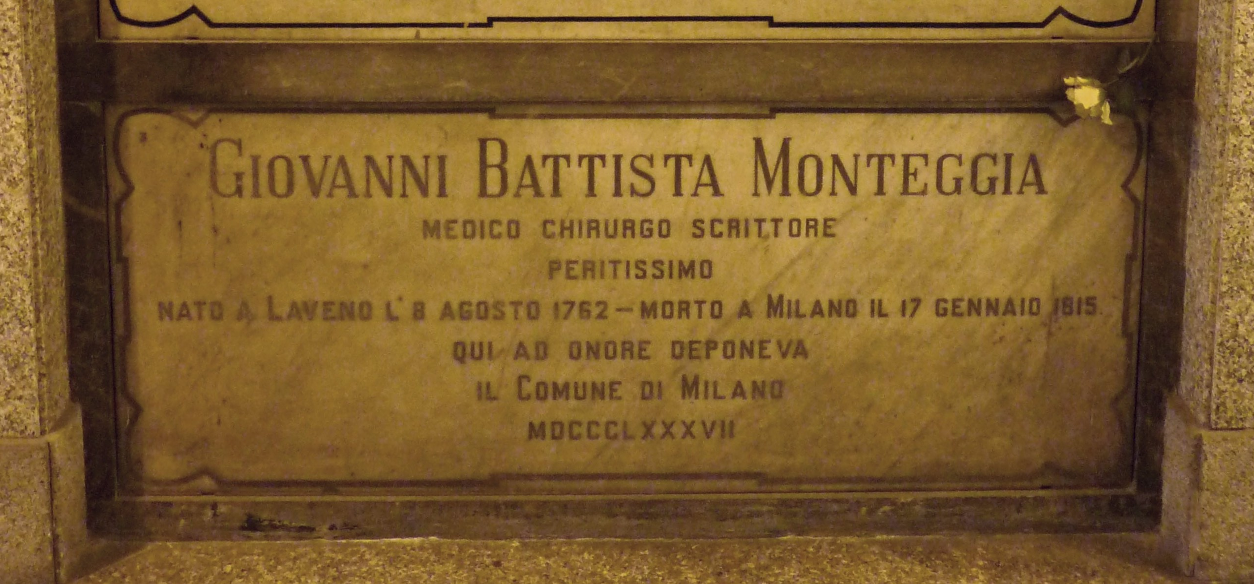 The grave of Italian surgeon Giovanni Battista Monteggia at the Monumental Cemetery of Milan, Italy.